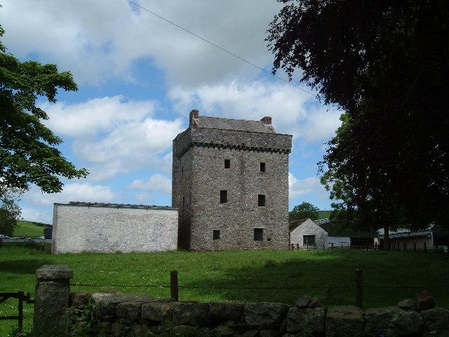 Drumcoltran Tower Mid 16th Century tower, property maintained by Historic Scotland.